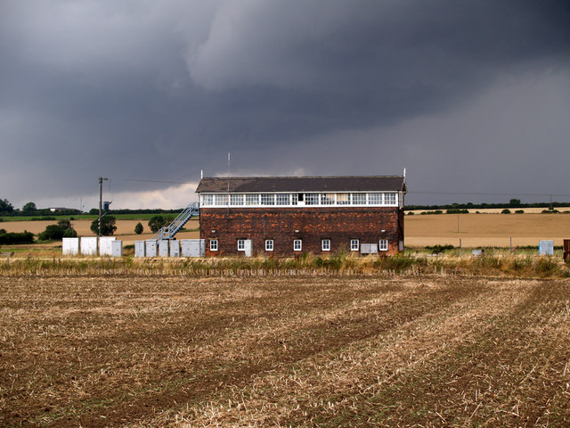 Wrawby Junction Signal Box. Picture taken on a stormy August afternoon from a position near the western end of Marsh Lane.